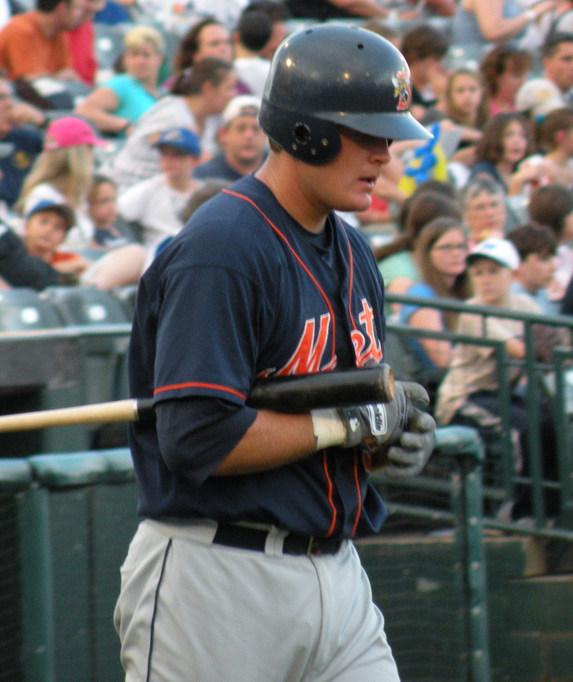 Professional baseball player Lucas Duda.